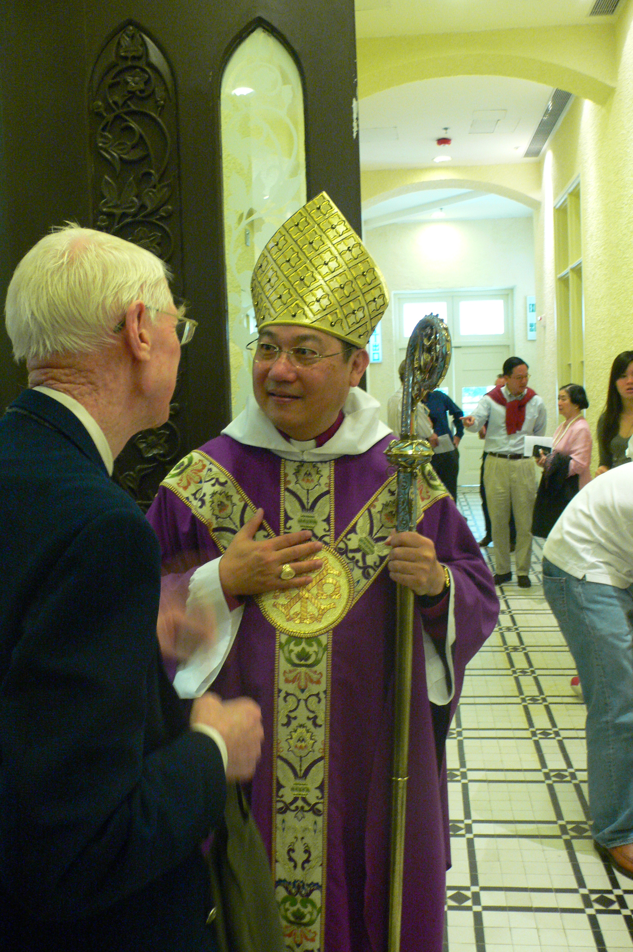 The Most Reverend Paul Kwong is the second Archbishop and Primate of Hong Kong Sheng Kung Hui and Bishop of the Diocese of Hong Kong Island.This photo was taken in Bethanie, Pokfulam, Hong Kong